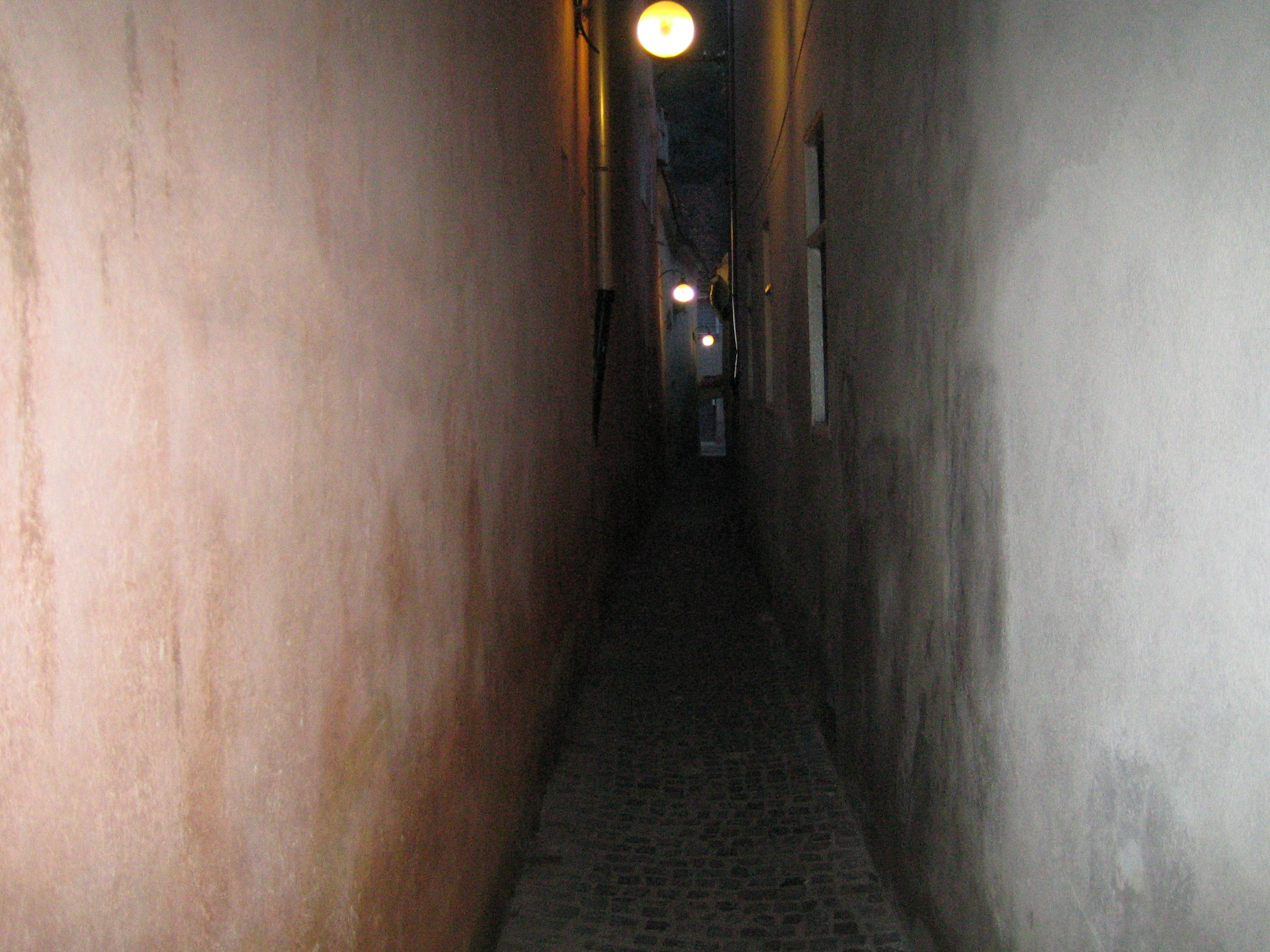 the Strada (Uliţa) Sforii/Schnurgasse/Zsinór utca in the medieval center of Braşov/Kronstadt/Brassó, Romania